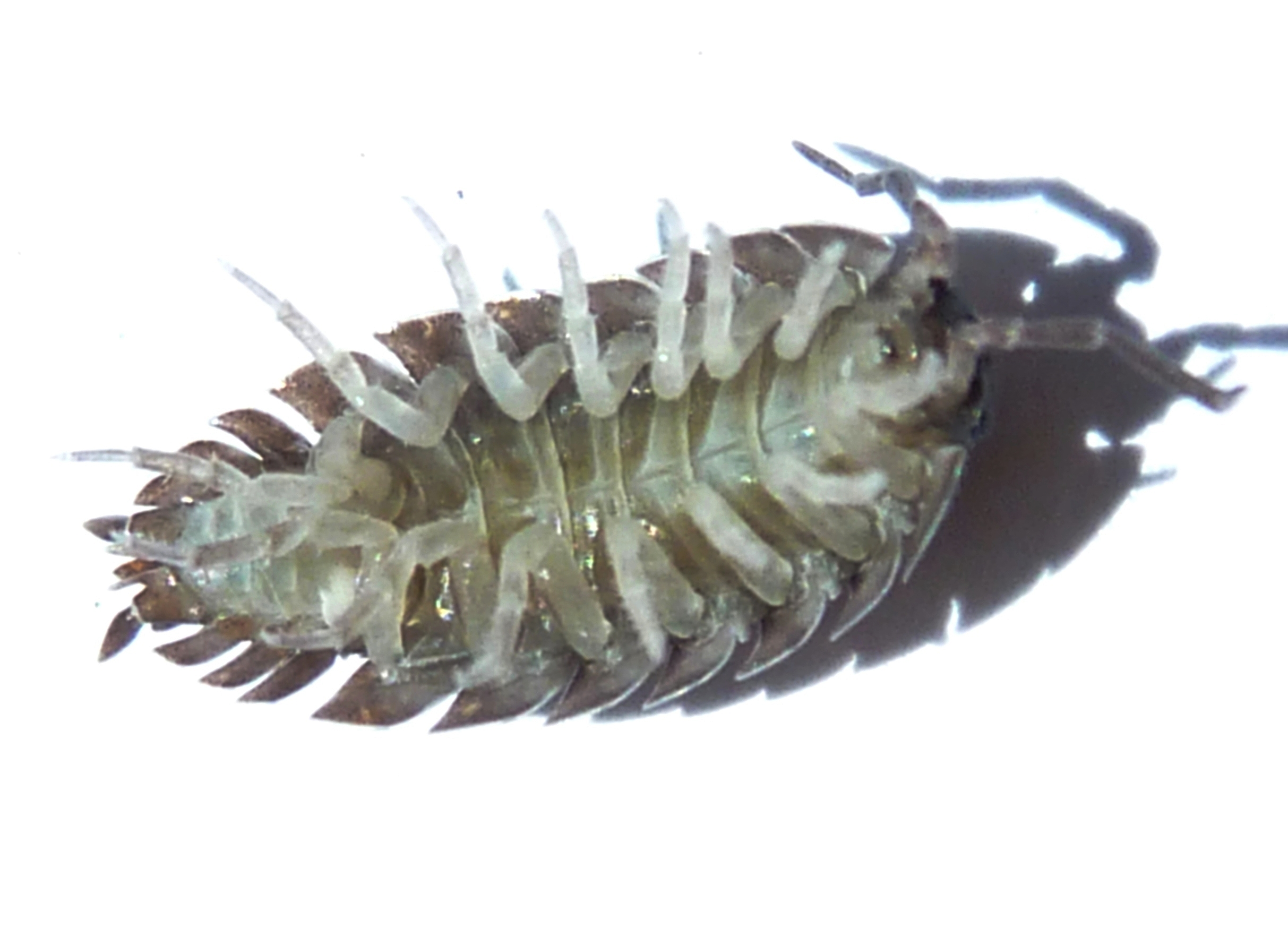 Common rough woodlouse in Pretoria, South Africa. Was apparently feeding on swimming pool algae about 30 cm under water.